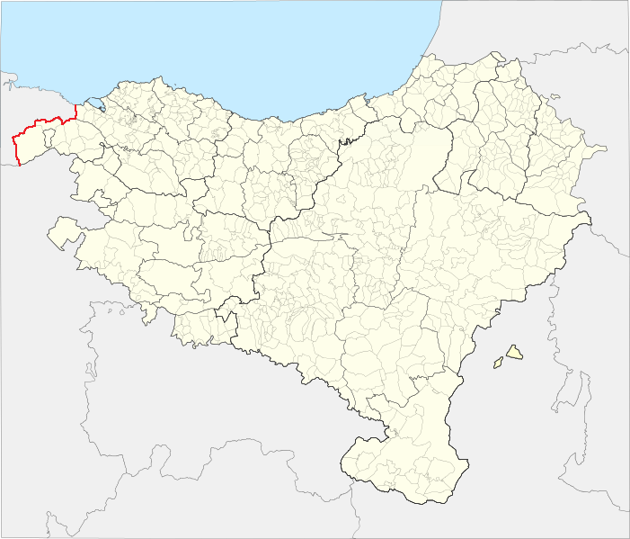 Border of Basque Country and Cantabria